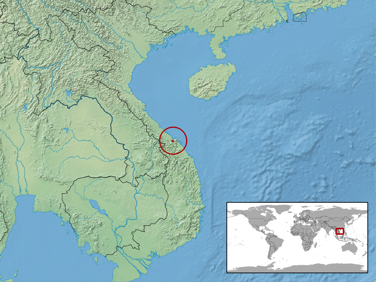 geographic distribution of Calamaria concolor (Native: Viet Nam)